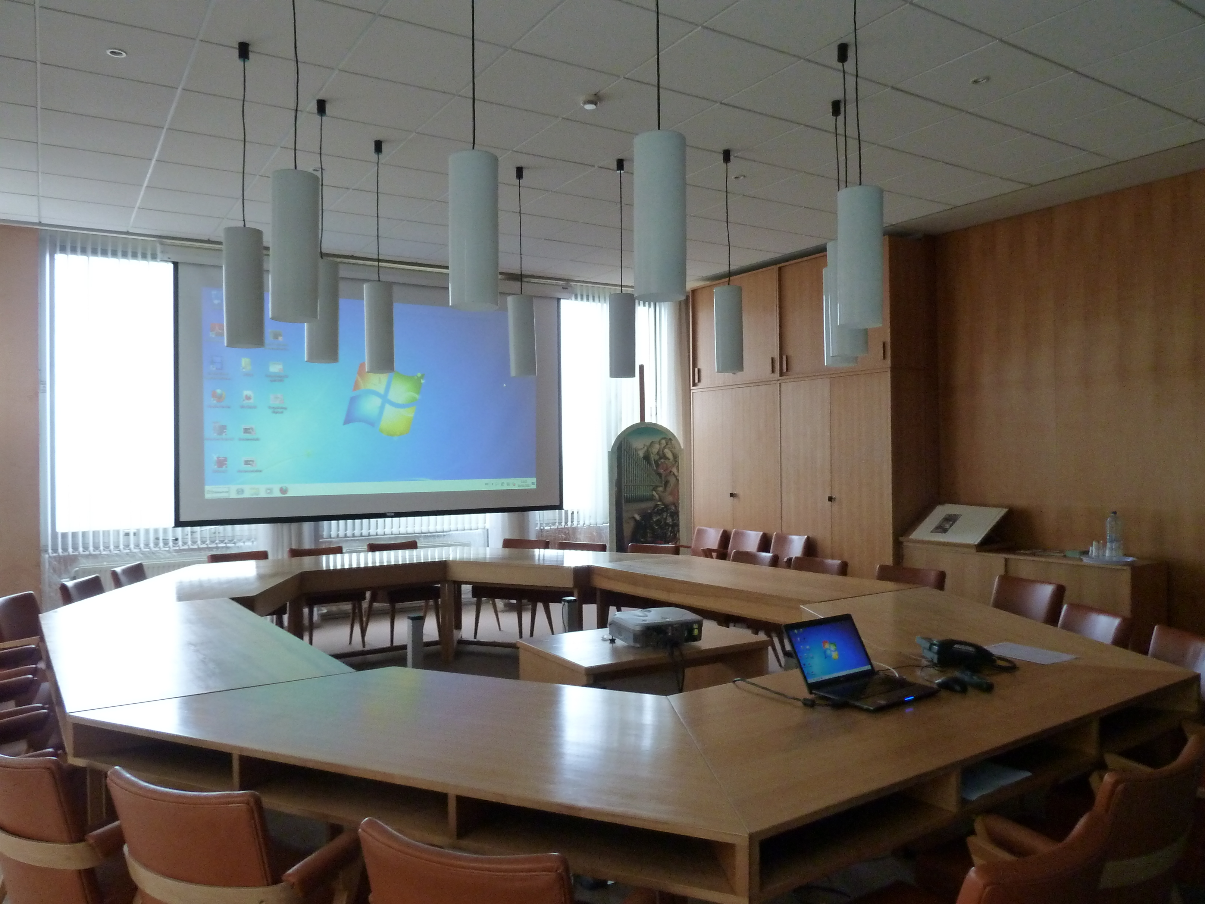 Meetingroom 30 November 2012, for the founding of Wikimedia Belgium.